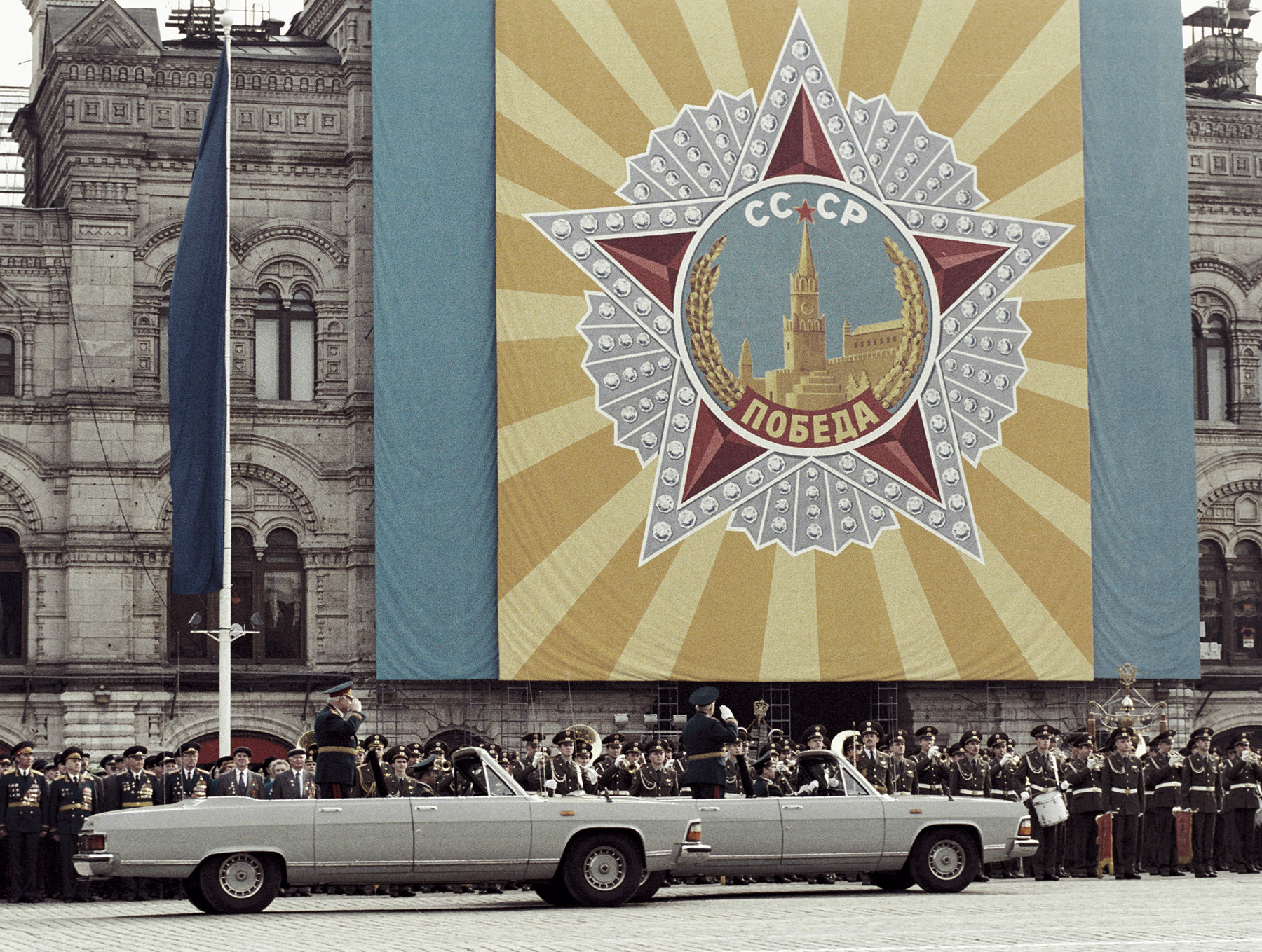 “A parade of WWII veterans in Red Square”. General of the Army Vladimir Govorov and Soviet Marshal Viktor Kulikov (in the cars) at a parade of WWII veterans marking the 50th VE-Day.